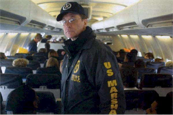 U.S. Marshal with prisoners being transported in an aircraft via Justice Prisoner and Alien Transportation System (United States Marshals Service)